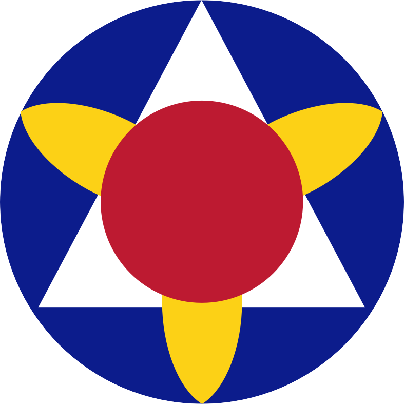 Description/Blazon On a blue disc 2 5/8 inches (6.67 cm) in diameter over a white triangle throughout, one point upward, three golden cartouche-like leaves in triangle throughout, one point to base, superimposed by a red disc 1 5/16 inches (3.33 cm) in diameter. Symbolism The blue disc is representative of the Infantry, the white triangle of a coral isle, and the golden propeller-like leaves are representative of the Air Corps, while the red disc is emblematic of the Coast Artillery and Field Artillery. Background The shoulder sleeve insignia was approved on 7 October 1942. It was rescinded on 18 February 1943.